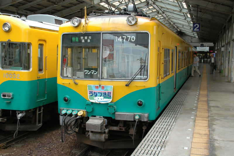 ToyamaChihouRailway 7660 photo by 2005.7.23